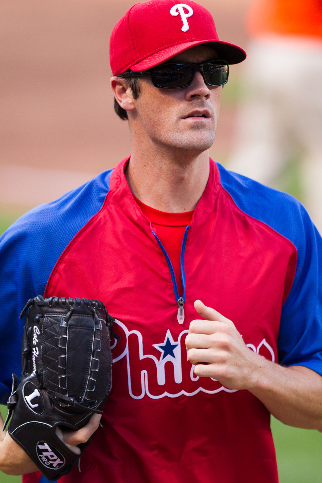 Cole Hamels warms up prior to a game on June 8, 2012